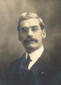 Congressman Joseph Jefferson Mansfield (1861-1947)